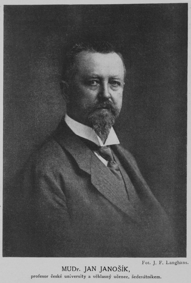 Portrait of Jan Janošík (1856-1927), Czech professor of anatomy, histology and embryology